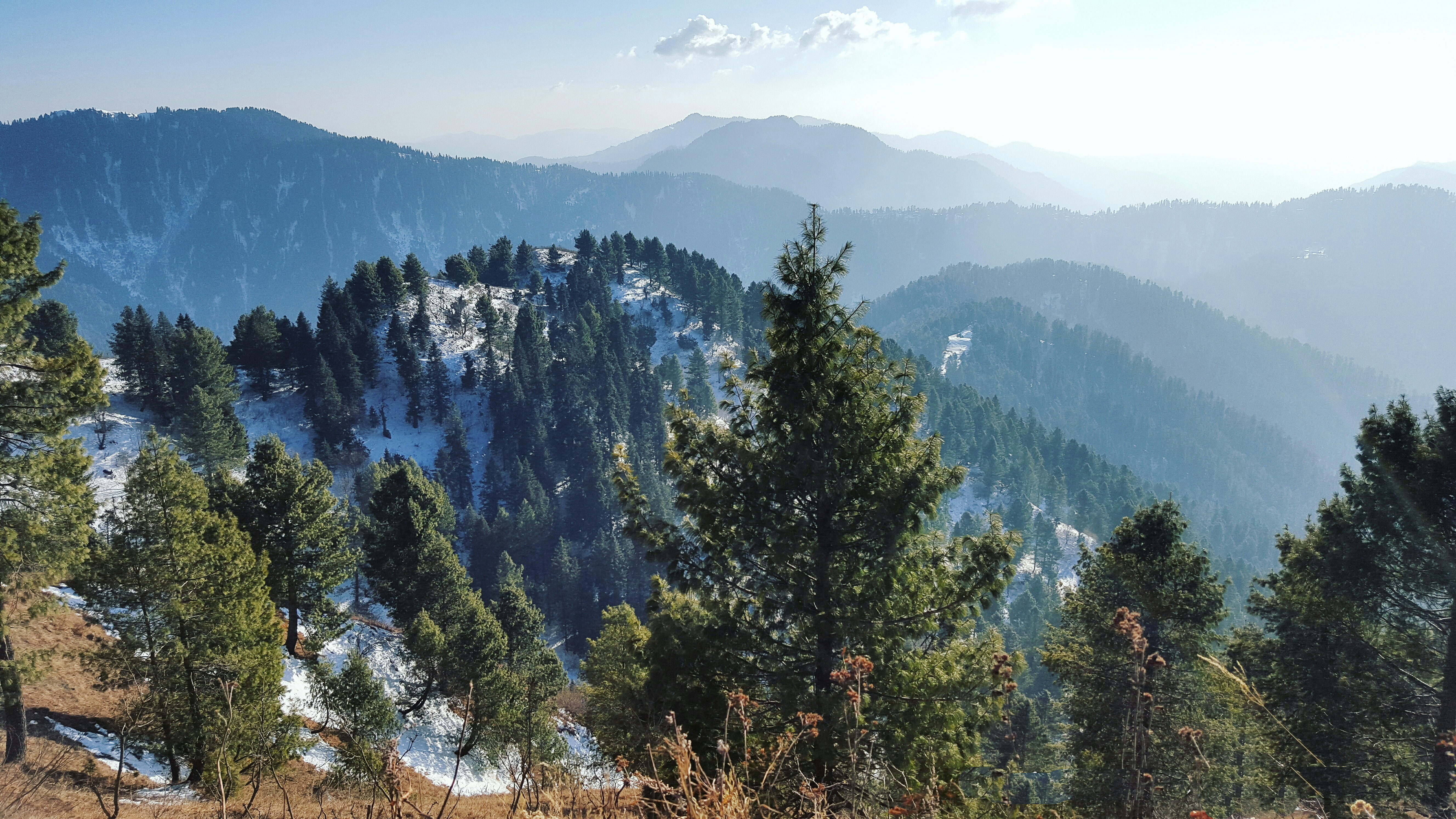 Miranjani is the highest peak, at 2,992 metres in elevation, of Abbottabad District in the Khyber Pakhtunkhwa Province of Pakistan